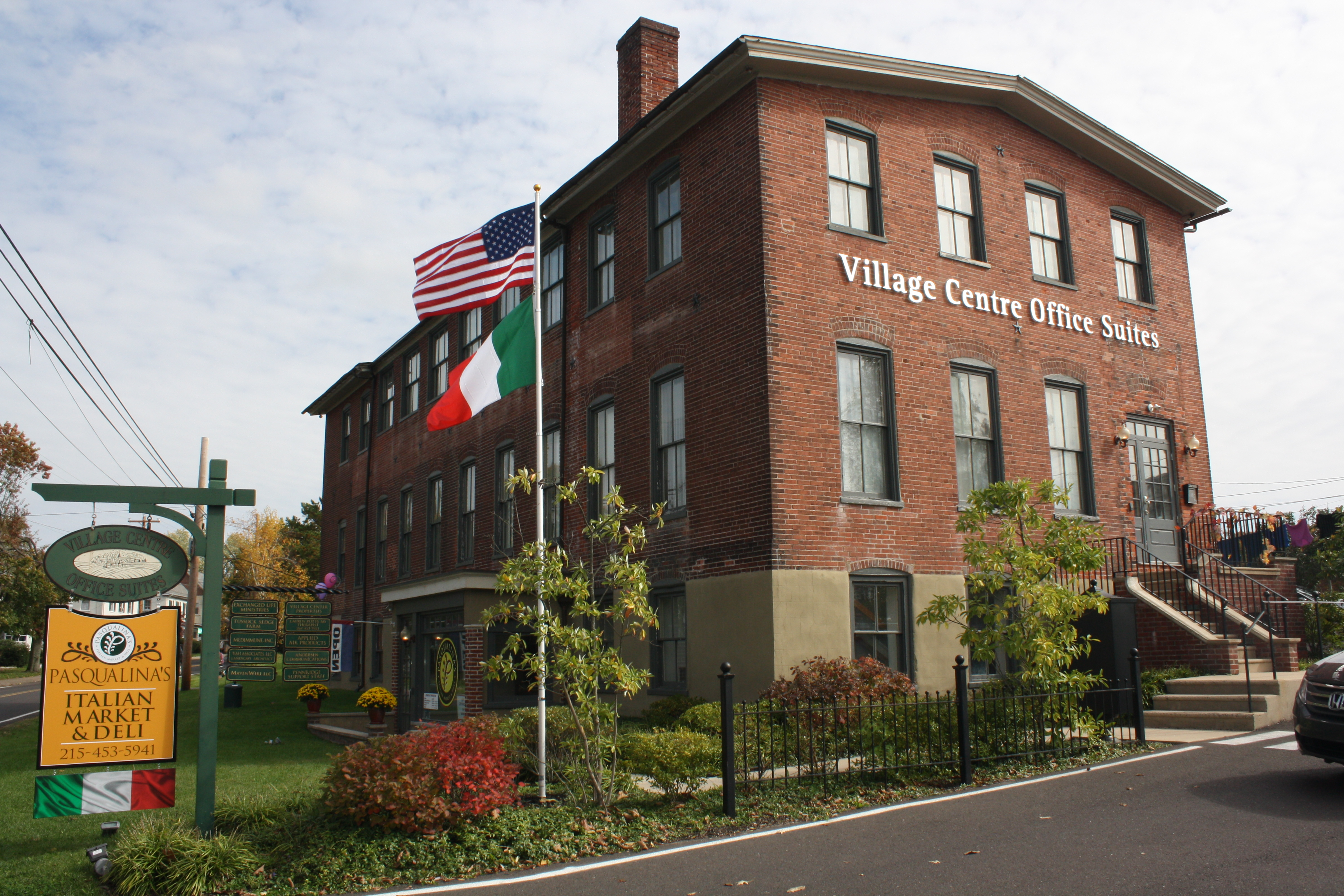 Uneek Havana Cigar Company, also known as Sprecht Clothing Company, is a historic factory building located at Blooming Glen, Hilltown Township, Bucks County, Pennsylvania. It was built between 1907 and 1910. View from west. Object location40° 22′ 07″ N, 75° 15′ 02.5″ W